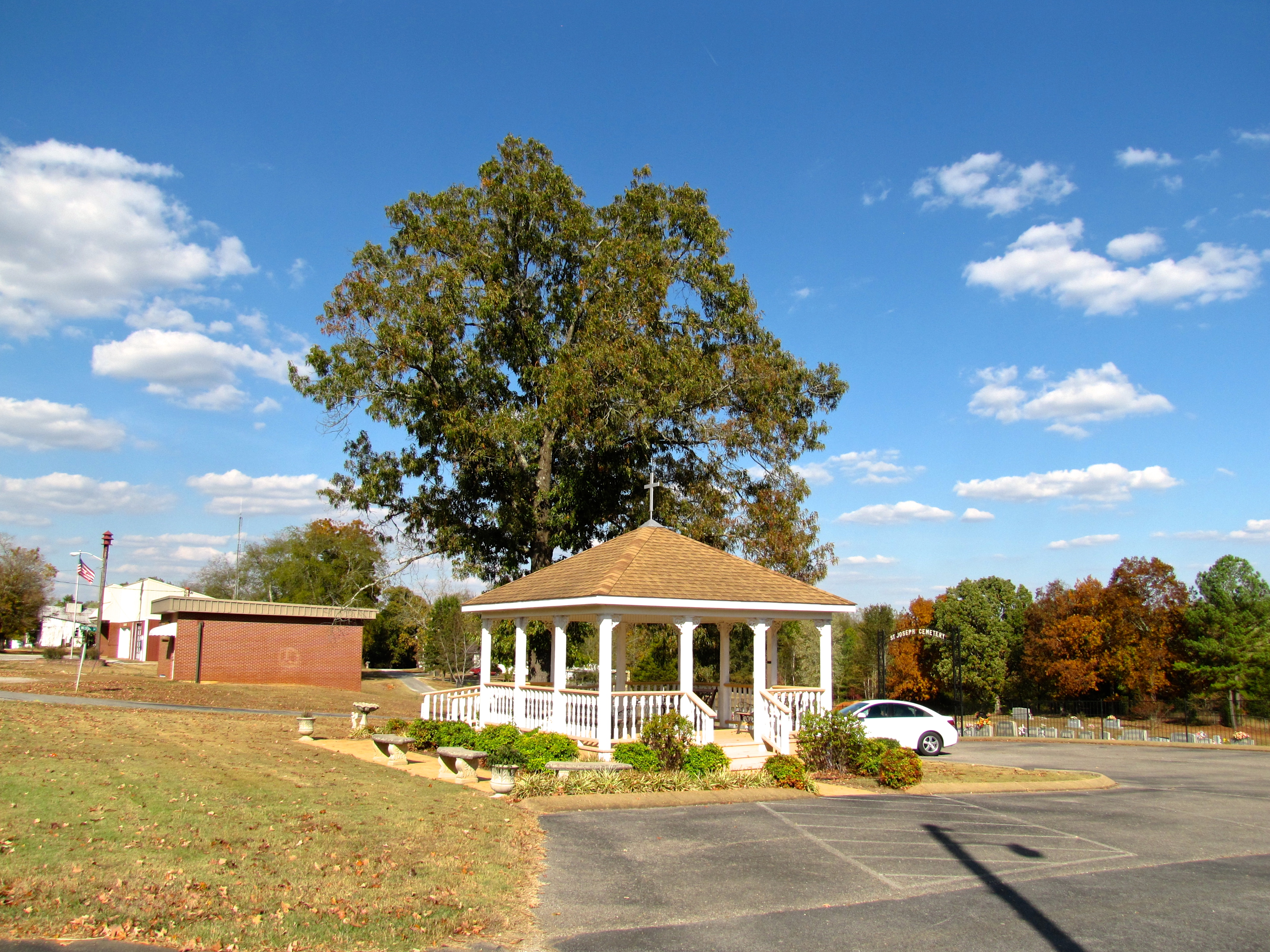 Gazebo at the St. Joseph United Methodist Church in St. Joseph, Tennessee, United States.